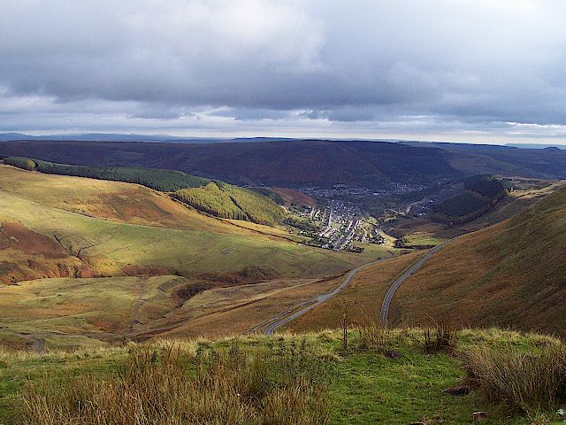 Bwlch-y-Clawdd Road and Treorchy A panoramic view of the valley down into Treorchy from Craig Ogwr.